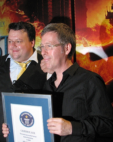 Saw 3D director Kevin Greutert at 2010 Comic-Con receiving the Guinness World Record award for the Saw franchise as the "Most Successful Horror Movie Series".